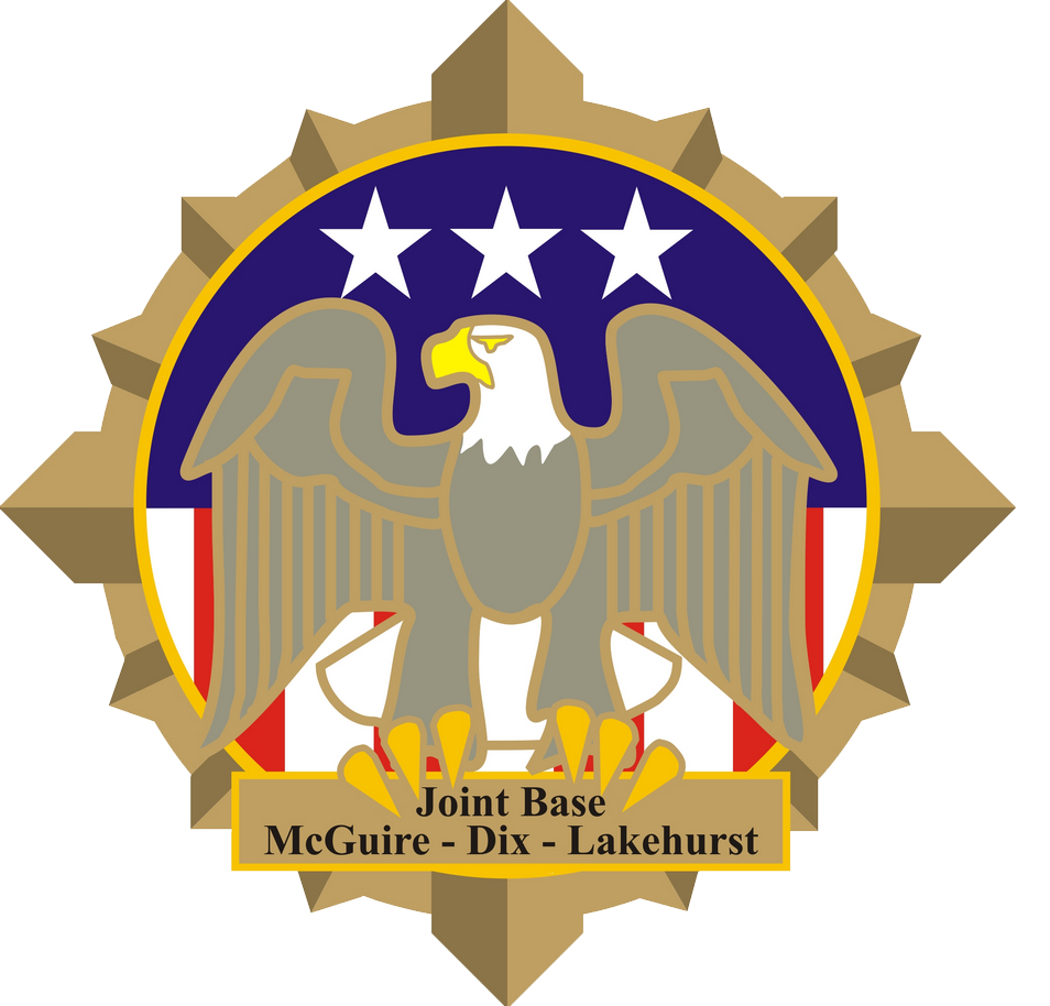 Emblem of Joint Base McGuire-Dix-Lakehurst